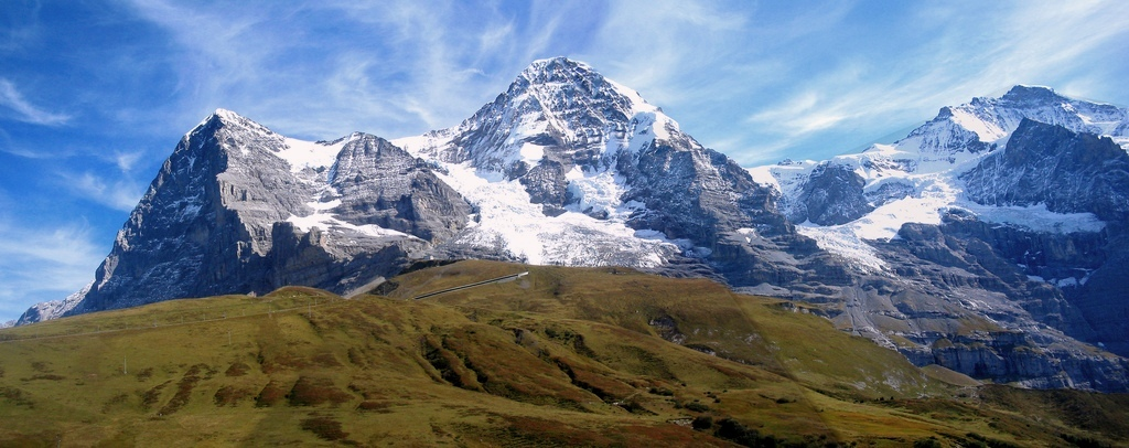 Eiger, Mönch and Jungfrau with tracks of the Jungfraubahn south of the Kleine Scheidegg as seen from the slopes of Lauberhorn